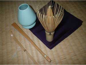 A chashaku (tea scoop), sensu (fan), chasen (tea whisk), whisk shaper and fukusa (silk cloth) for the Japanese tea ceremony. Photo by Exploding Boy 06:51, Jan 25, 2004 (UTC). Category:Japanese tea ceremony